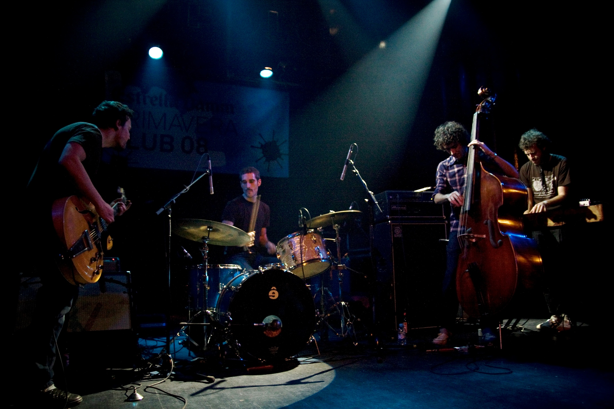 12twelve Primavera Club, Apolo, Barcelona. 2008_12_10